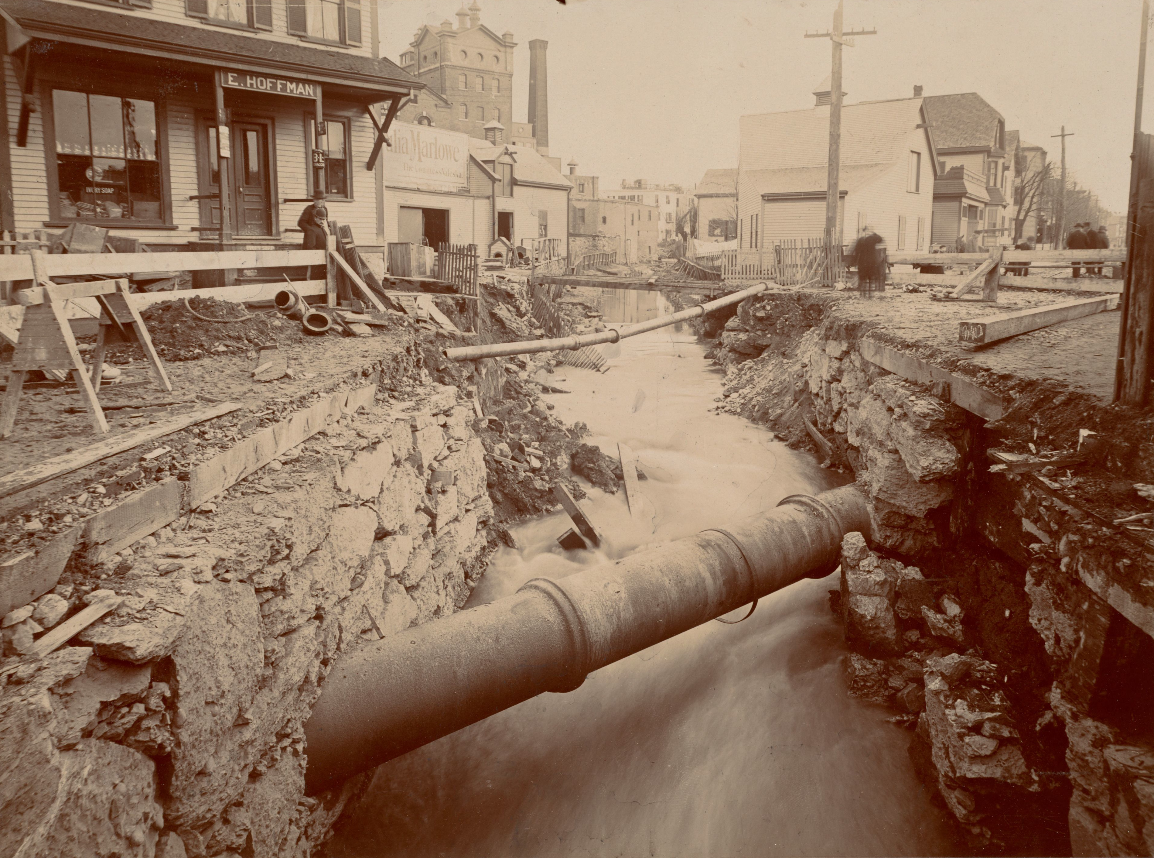 Stony Brook at Boylston Avenue (now ~ 270 Amory Street) in Jamaica Plain in 1898. Work was underway to convert the open channel to a closed conduit to control flooding. The billboard in the background advertises Julia Marlowe in The Countess Valeska, a role she played in 1898. The tall brick building in the rear center is the New England Brewing Company (Haffenreffer Brewery), part of which still stands.